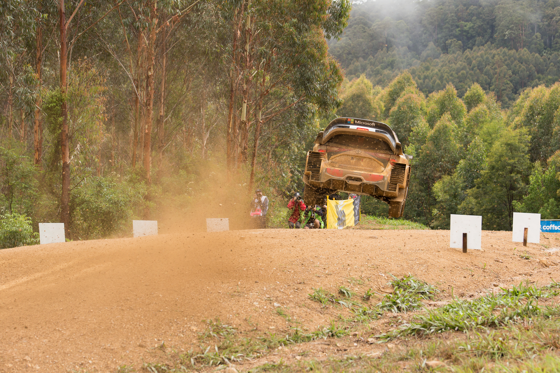 Rally Australia 2017